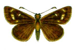 Anisynta cynone Phylum ARTHROPODA Class HEXAPODA Order Lepidoptera Family Hesperiidae